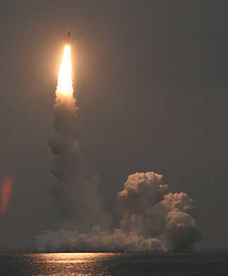 The Northern Fleet strategic missile submarine Yuri Dolgorukiy (the major ship of the project 955 Borei) has performed a successful launch of an intercontinental ballistic missile Bulava from the Barents Sea against the assigned training targets at the Kura range on Kamchatka. The launch was carried out from the underwater position. According to the objective monitoring data, the combat units of the missile passed all the stages of the flight programme and hit all the assigned targets.